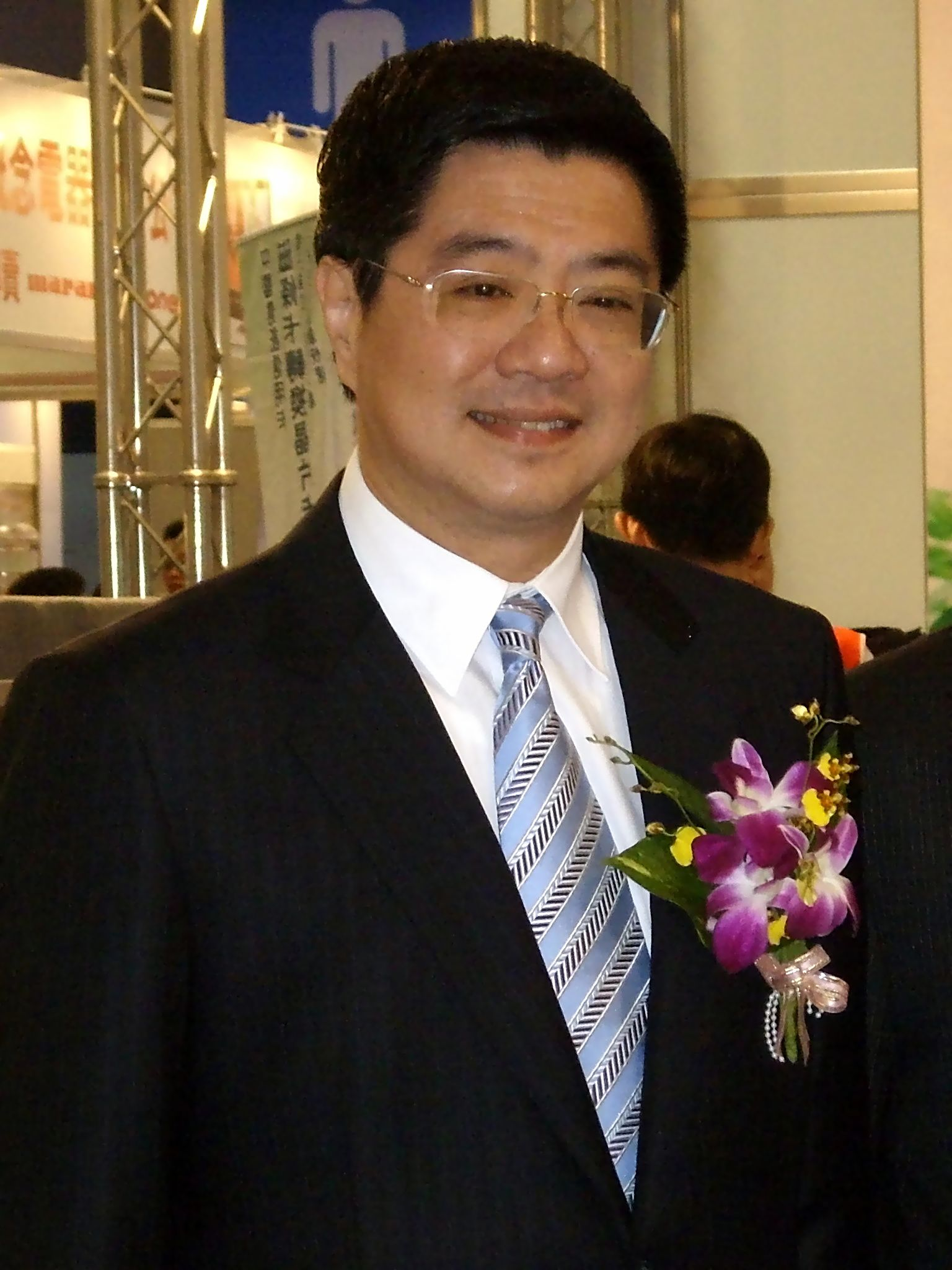 Spokesman of Executive Yuan of R.O.C. Taiwan Jong-tai Cho. Bân-lâm-gú: 中華民國（台灣）行政院的發言人卓榮泰。Tiong-huâ Bîn-kok(Tâi-uân) Hîng-tsìng-īnn huat-giân-jîn Tok Îng-thài.